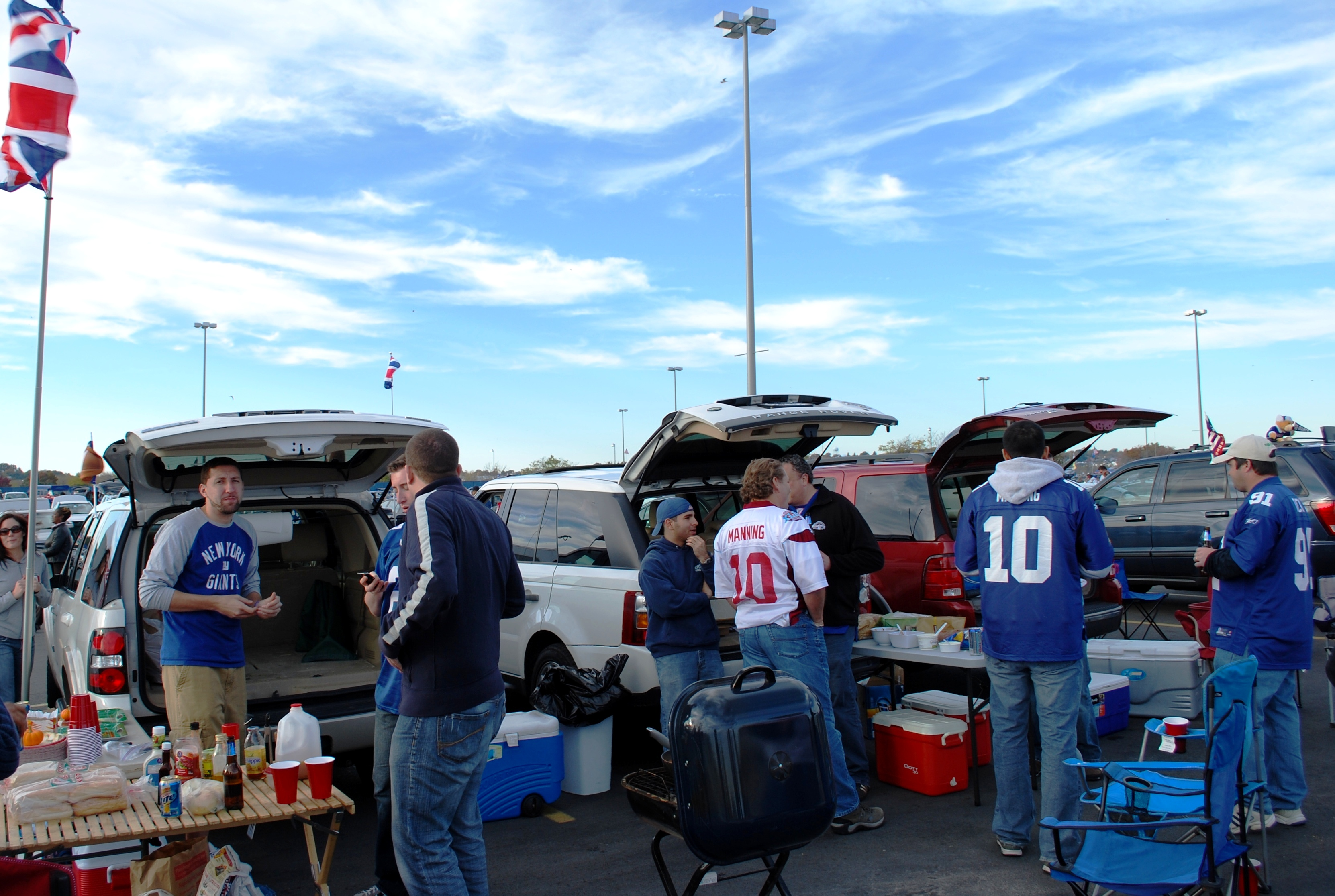 Tailgating